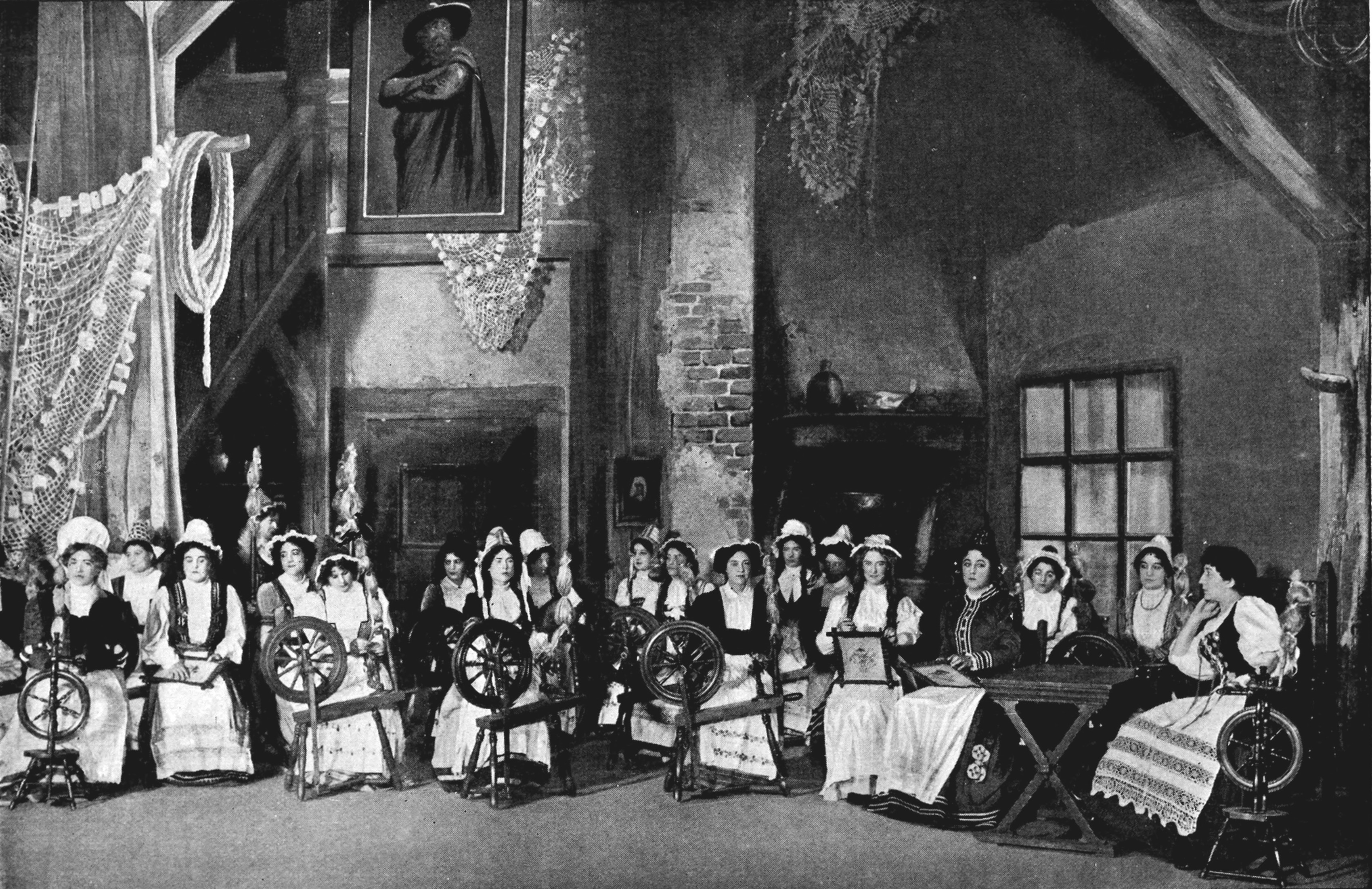 Wagner - Der fliegende Holländer, act I - Senta and the maidens (Mme. Gadski on the right) Title: The Victrola book of the opera : stories of one hundred and twenty operas with seven-hundred illustrations and descriptions of twelve-hundred Victor opera records Year: 1917 (1910s) Authors: Victor Talking Machine Company Rous, Samuel Holland Subjects: Operas Publisher: Camden, N.J. : Victor Talking Machine Co. Text Appearing Before Image: By Fritz Feinhals, Baritone (In German) 68484 12-inch, $1.25 159 Text Appearing After Image: VICTROLA BOOK OF THE OPERA —FLYING DUTCHMAN The term is past and once again are ended seven long years;The weary sea casts me upon the land.Ha! haughty ocean 1